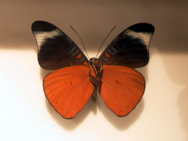 Panacea prola